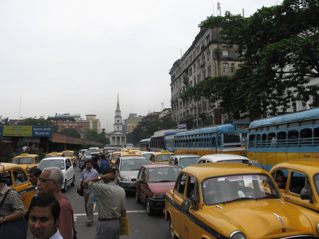 A common scene in BBD Bagh, Calcutta. At the far end is St. Andrew's Church.